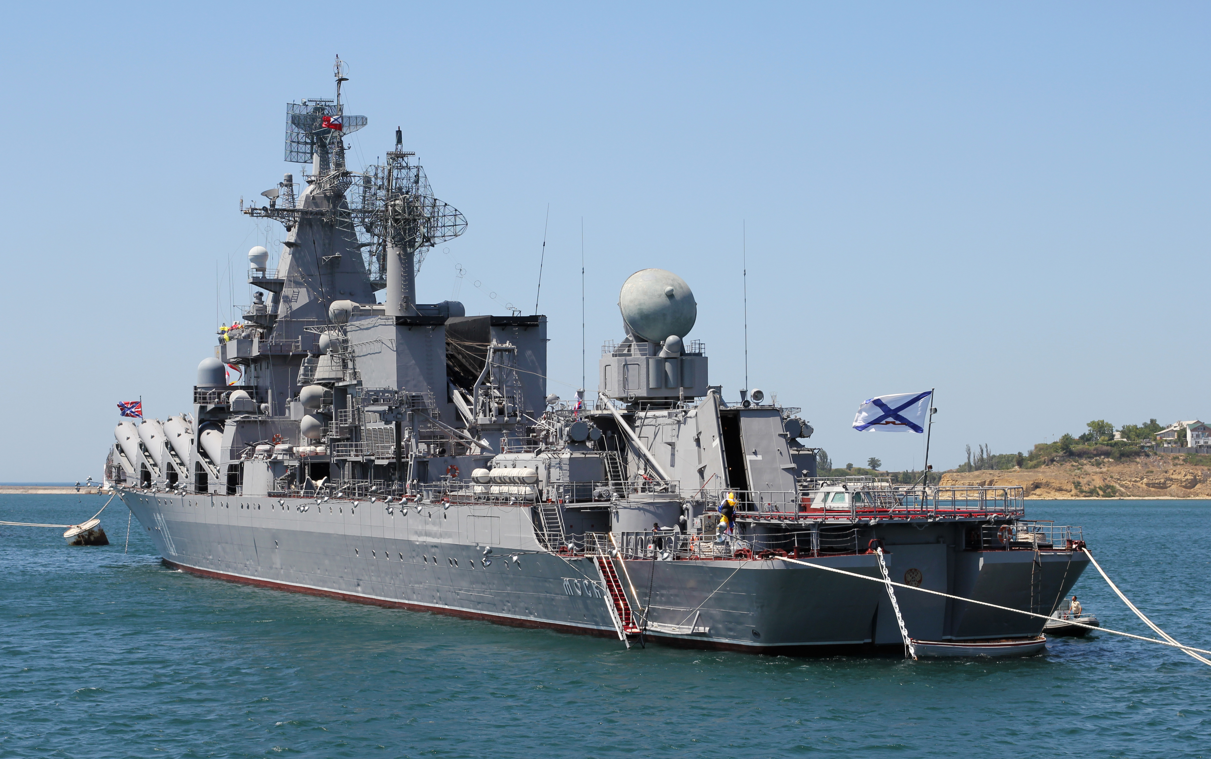 "Moskva" ("Moscow") (ex-"Slava", which means "Glory") is the lead ship of the Project 1164 Atlant class of guided missile cruisers in the Russian Navy. This warship was used in the 2008 Russia-Georgia War. The Black Sea. Sevastopol bay. This photo was taken from a boat.